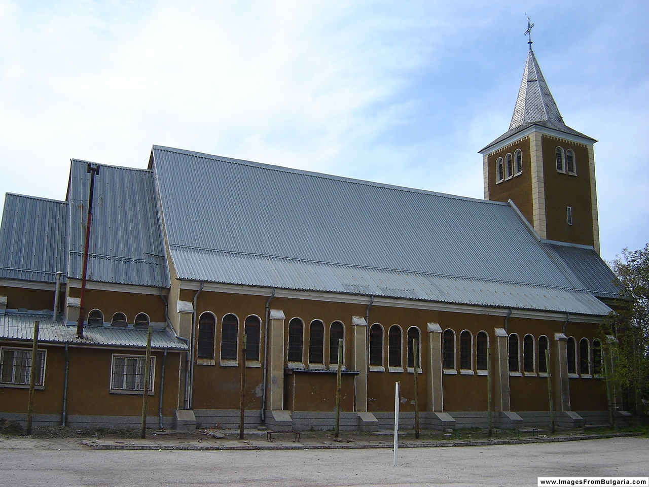 Roman Catholic church, Bardarski geran, Vratsa Province, Bulgaria